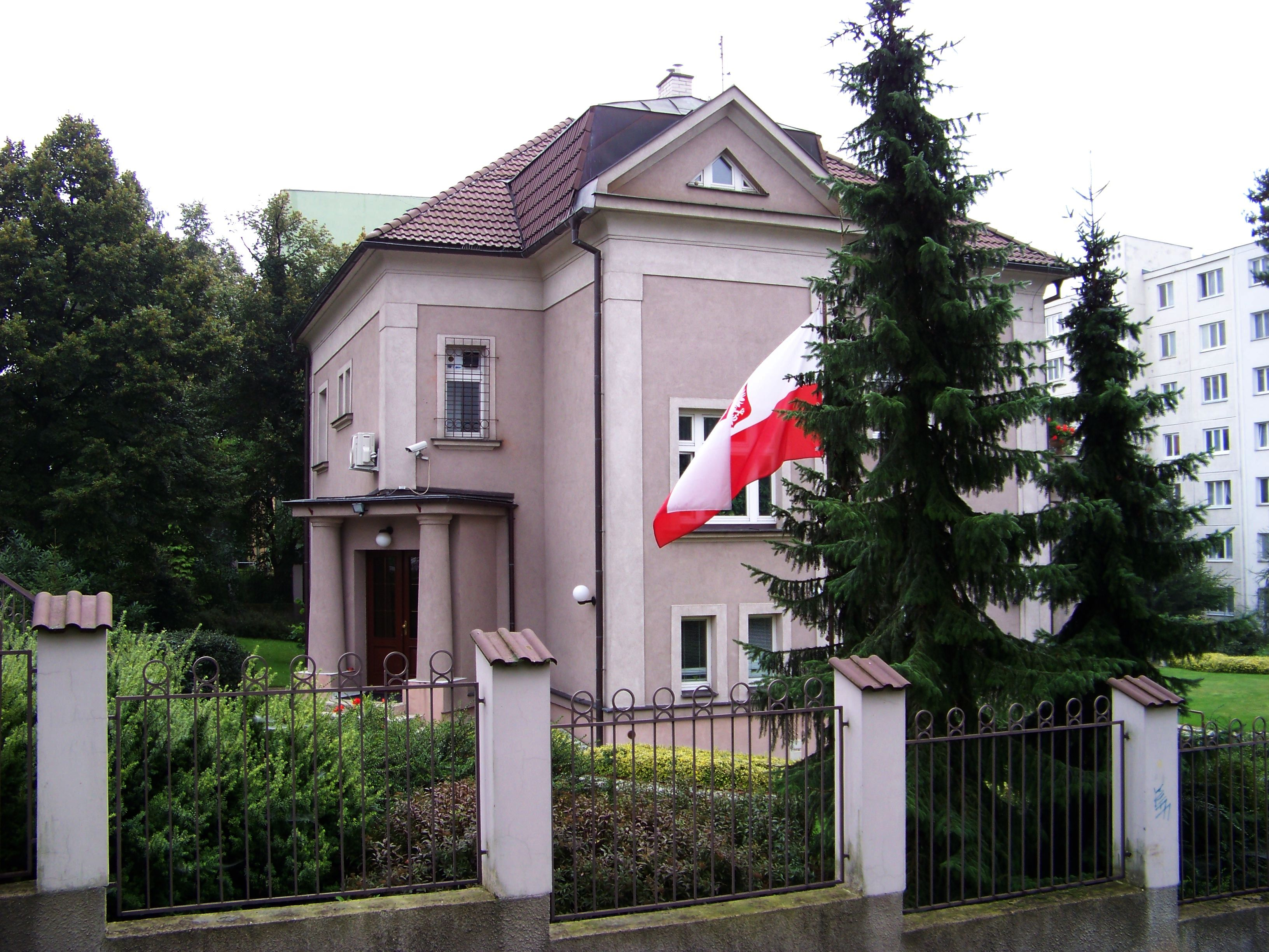 Prague-Strašnice, the Czech Republic. V úžlabině 844/14, Consular Section of the Polish embassy.